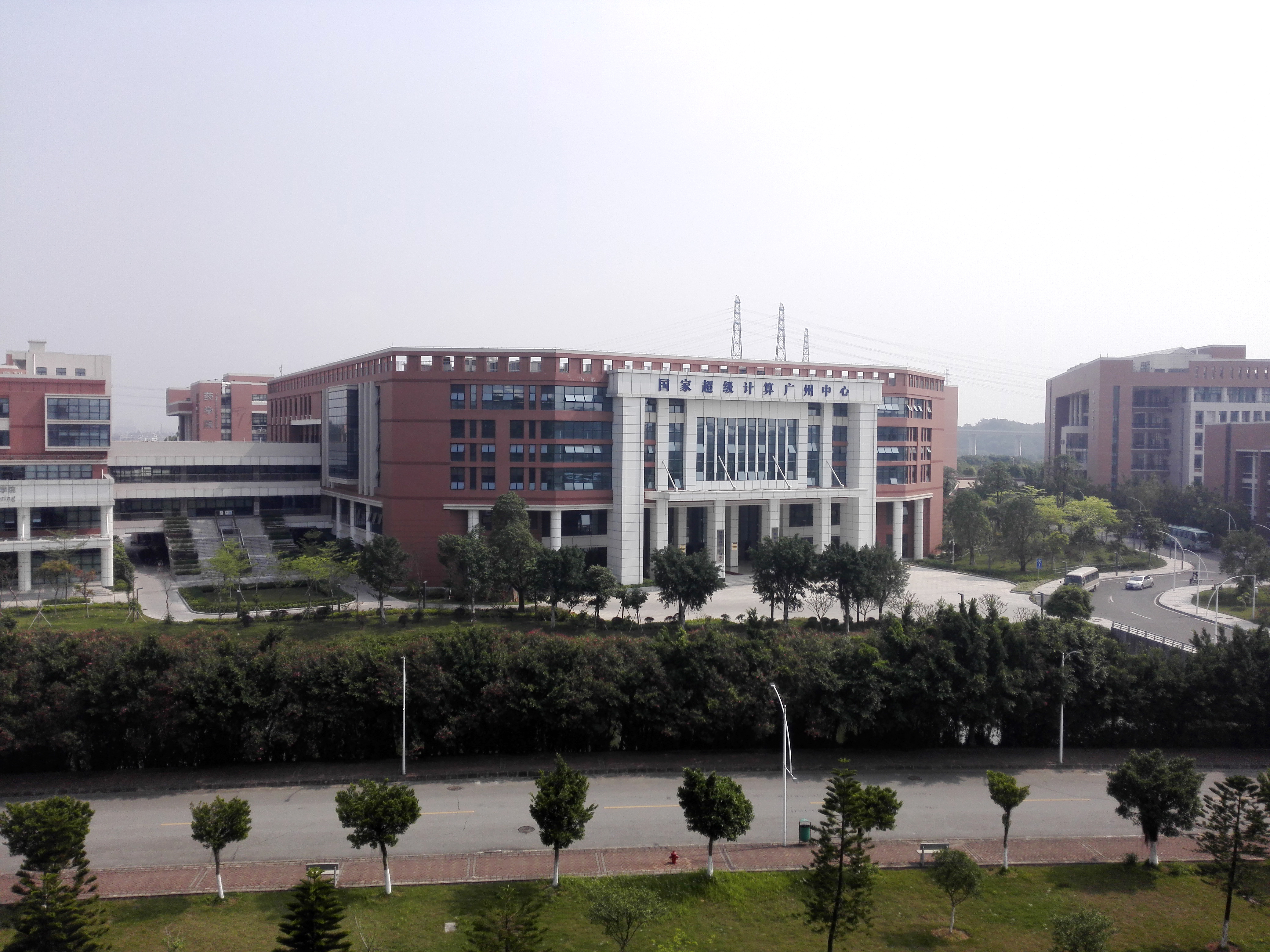 National Supercomputer Center in Guangzhou中文（中国大陆）: 国家超级计算广州中心